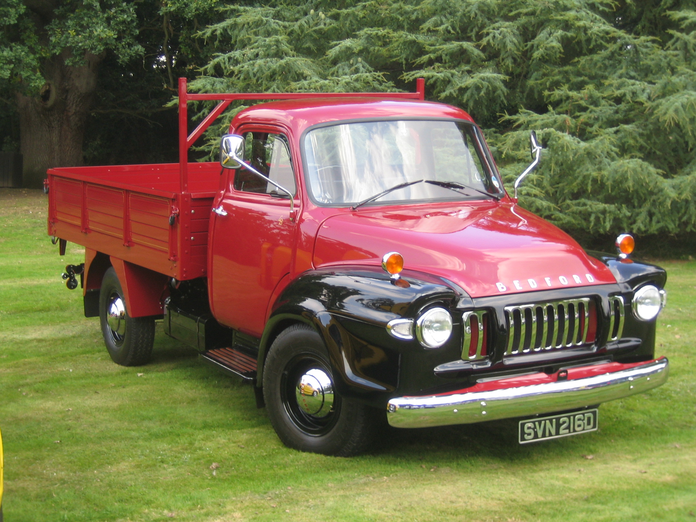 Bedford TJ tipper truck looking a lot better polished than they ever did in the 1960s